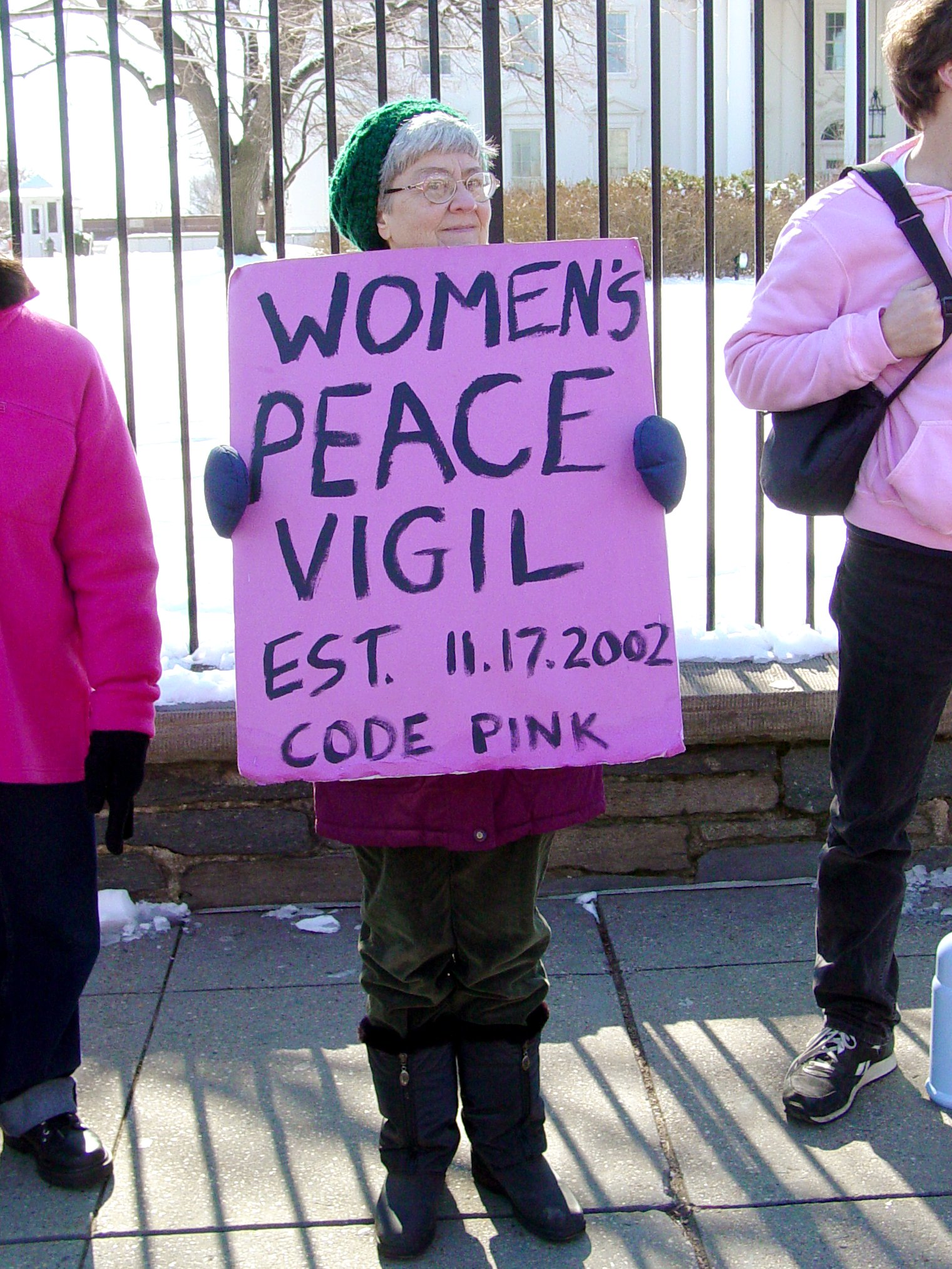 A Code Pink member holds a sign as part of a four-month vigil in front of the White House